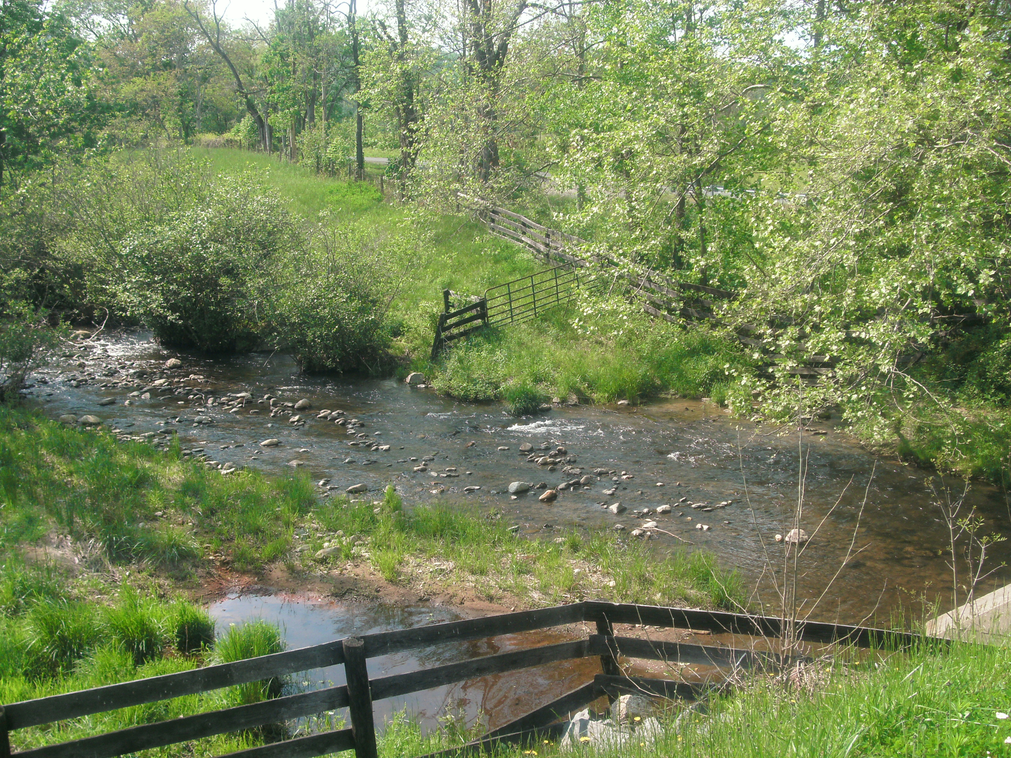 Taken by me in May, 2016 GEDSC DIGITAL CAMERA